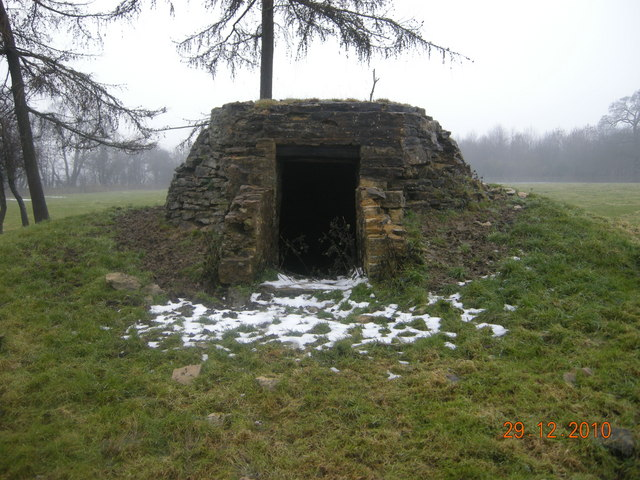 Ice House